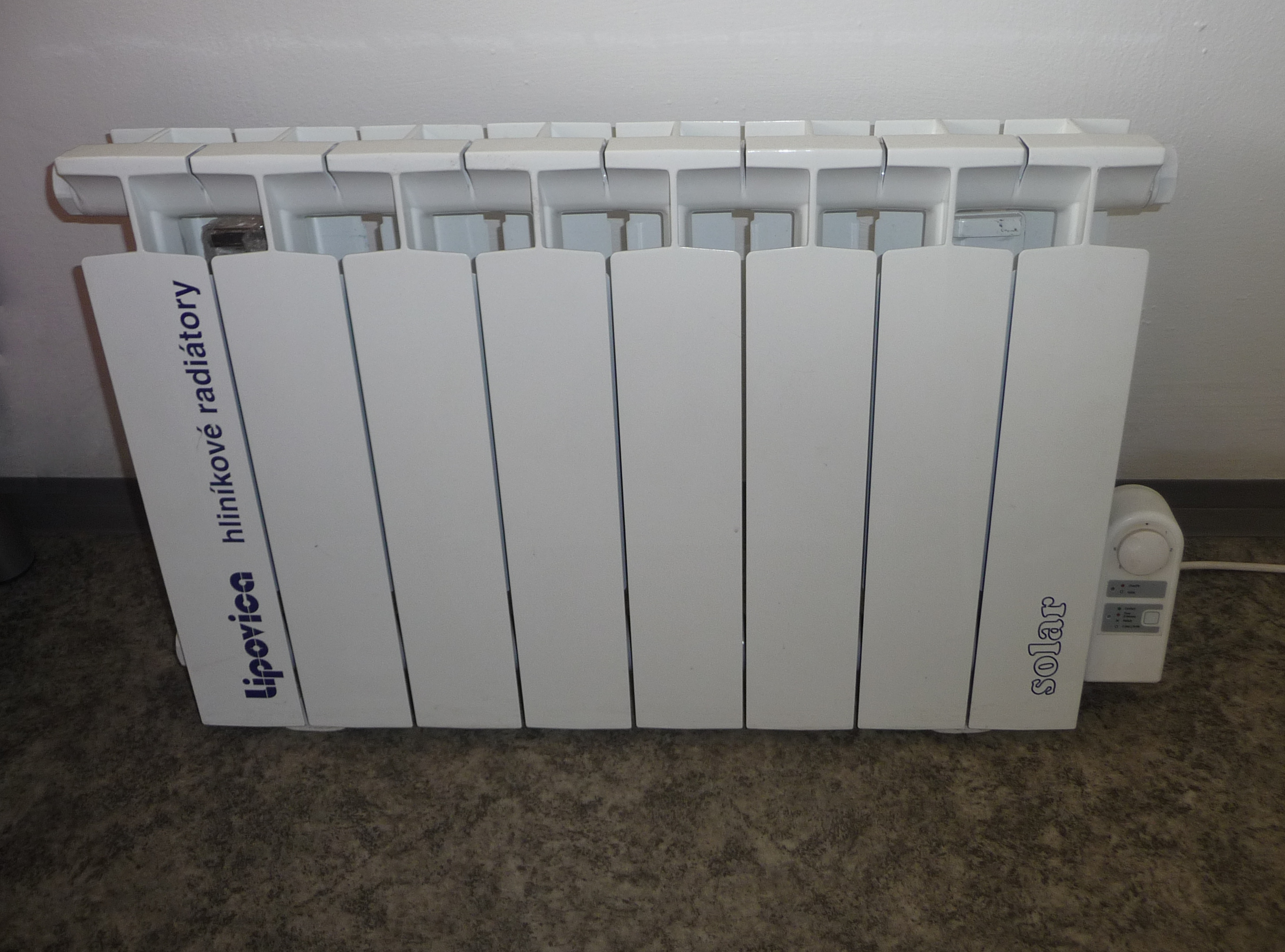 Lipovica radiator, type Solar